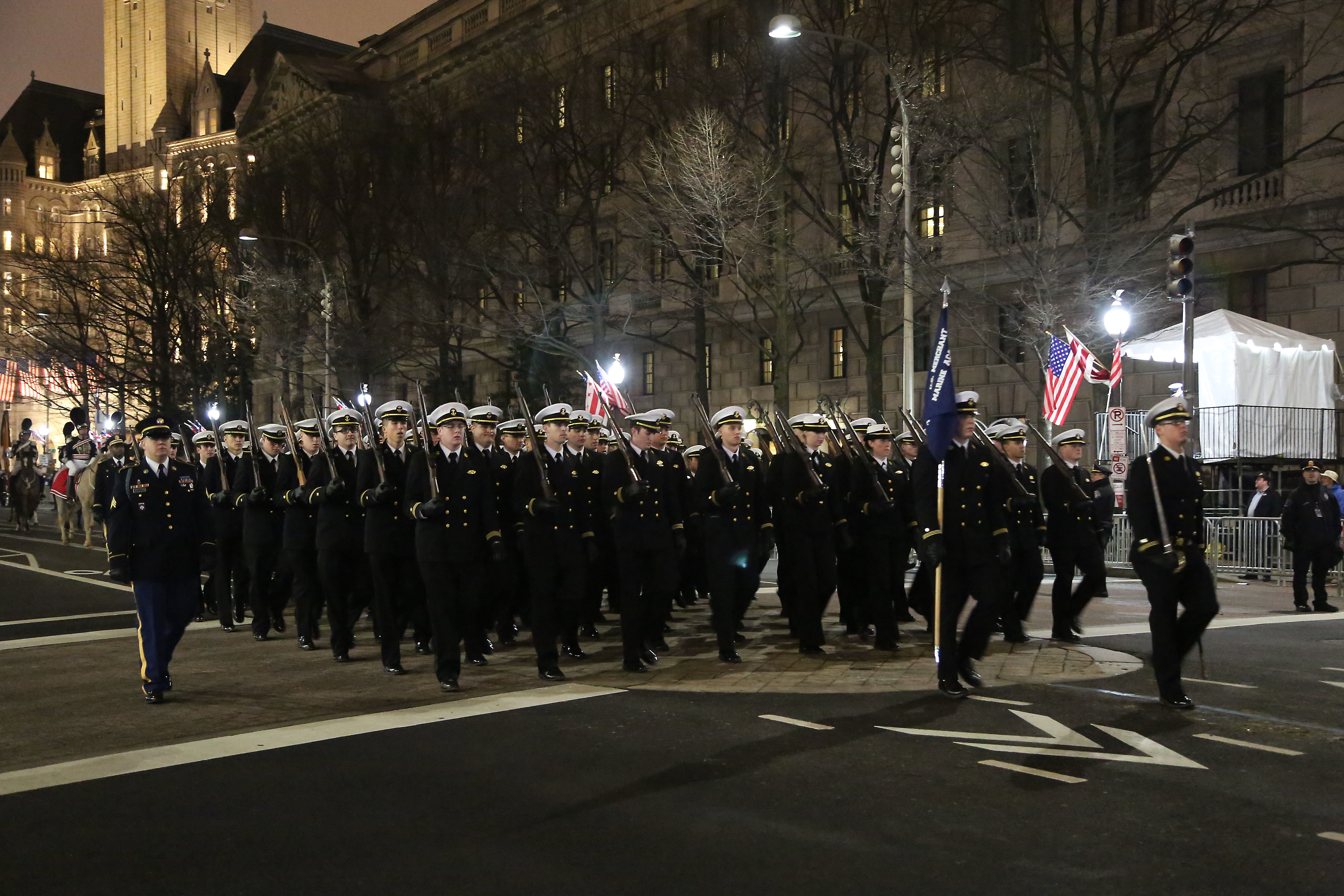 Members of the U.S. Merchant Marine Academy march by Freedom Plaza along Pennsylvania Avenue, during the 58th Presidential Inauguration, Washington, D.C., Jan. 20, 2017. More than 5,000 military members from across all branches of the armed forces of the United States, including Reserve and National Guard components, provided ceremonial support and Defense Support of Civil Authorities during the inaugural period. (DoD photo by U.S. Army Sgt. Kalie Jones)